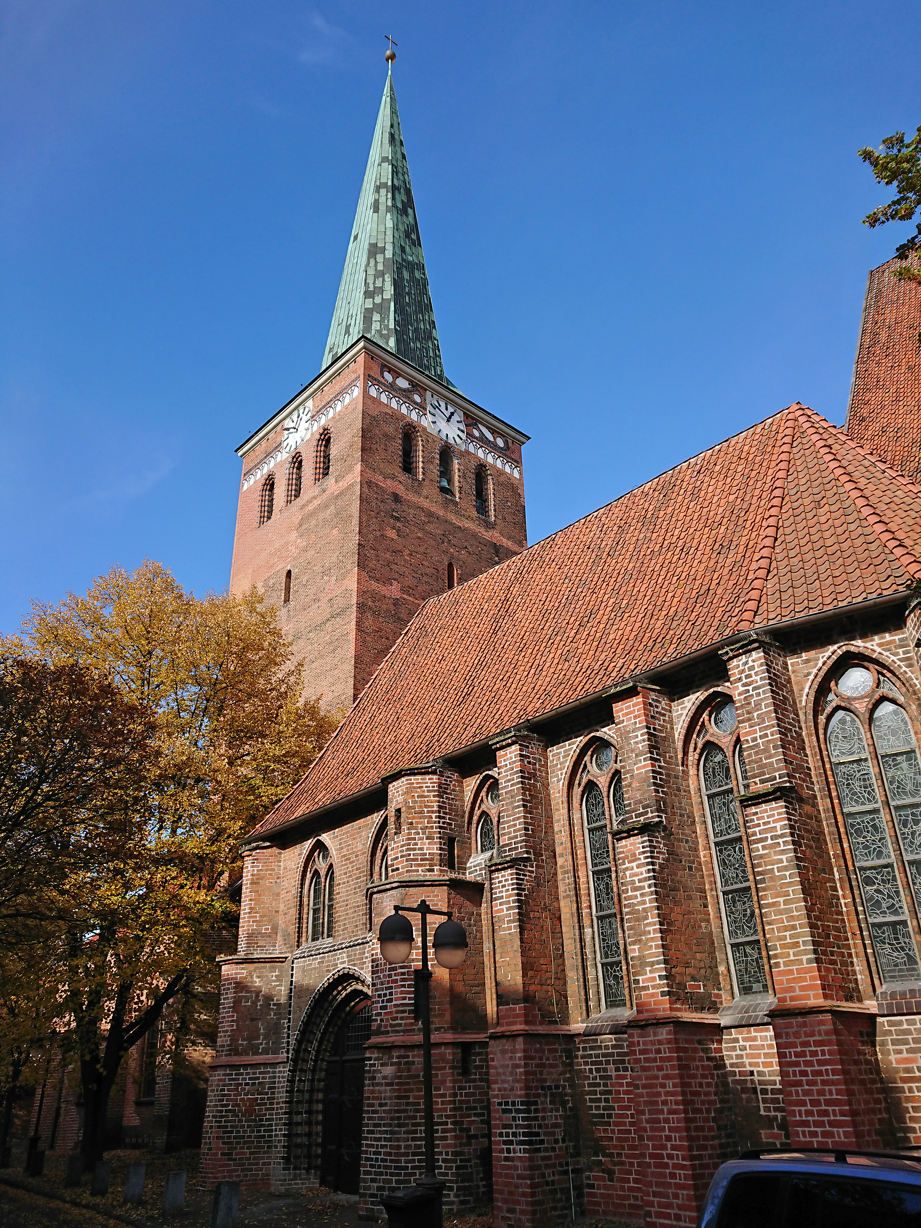 Church St. Mary in the town Uelzen (northern Germany).